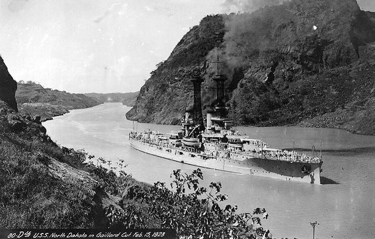 The USS North Dakota Battleship, Public domain photo from history.navy.mil